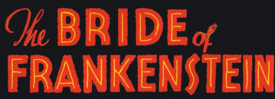 Official logo of the movie The Bride of Frankenstein